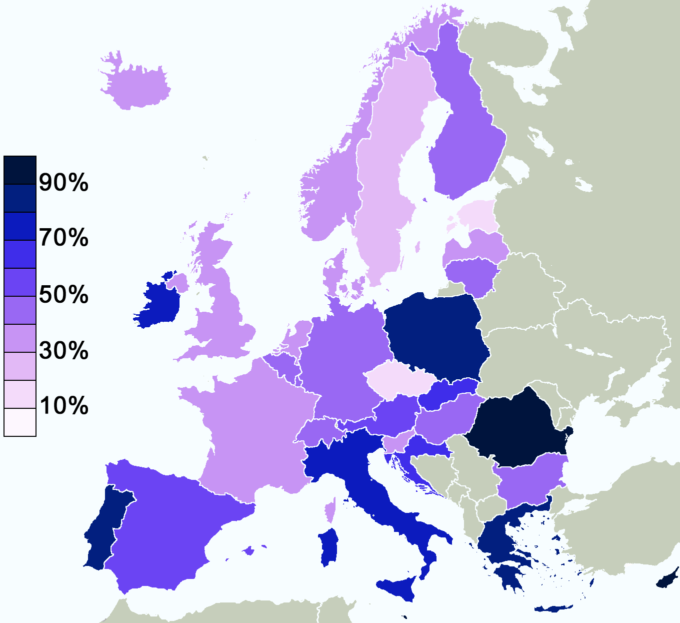 Europe belief in God with particular relevance to Christianity. (Turkey ommitted)